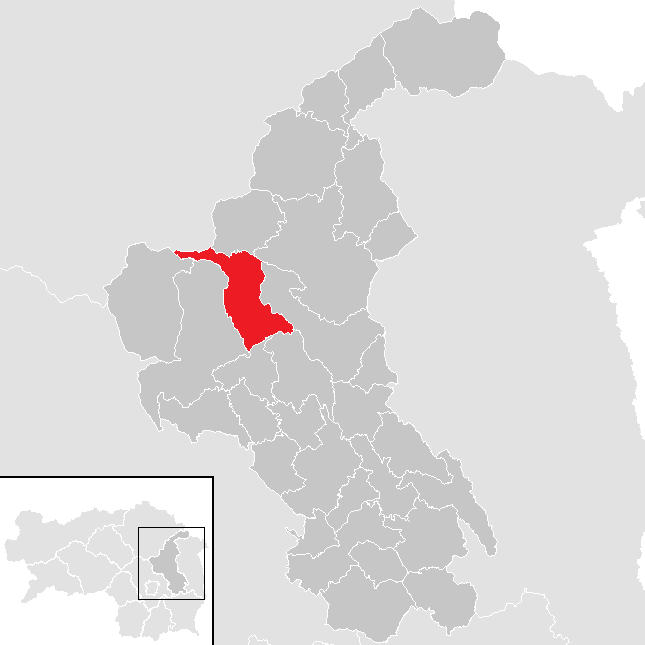 district Weiz